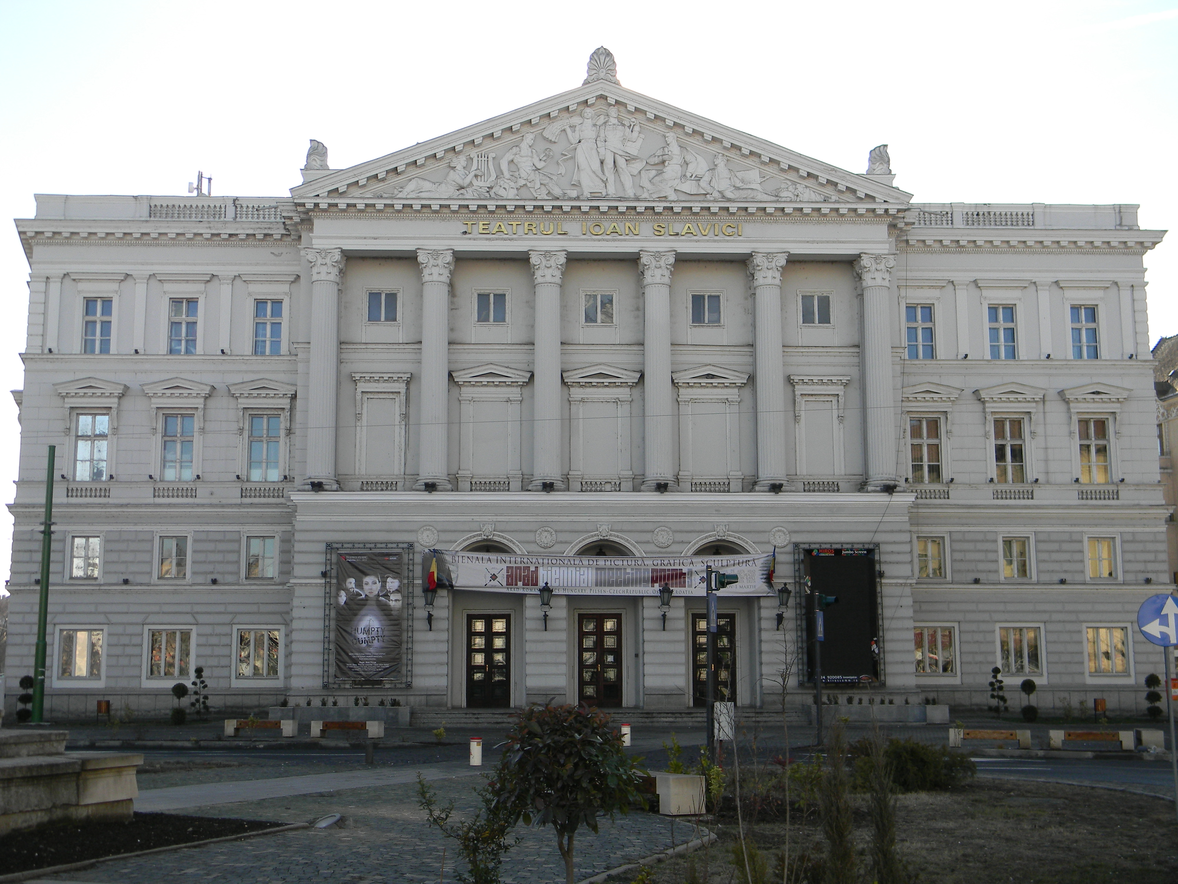 Ioan Slavici Theatre, Arad, Romania - frontal facade view